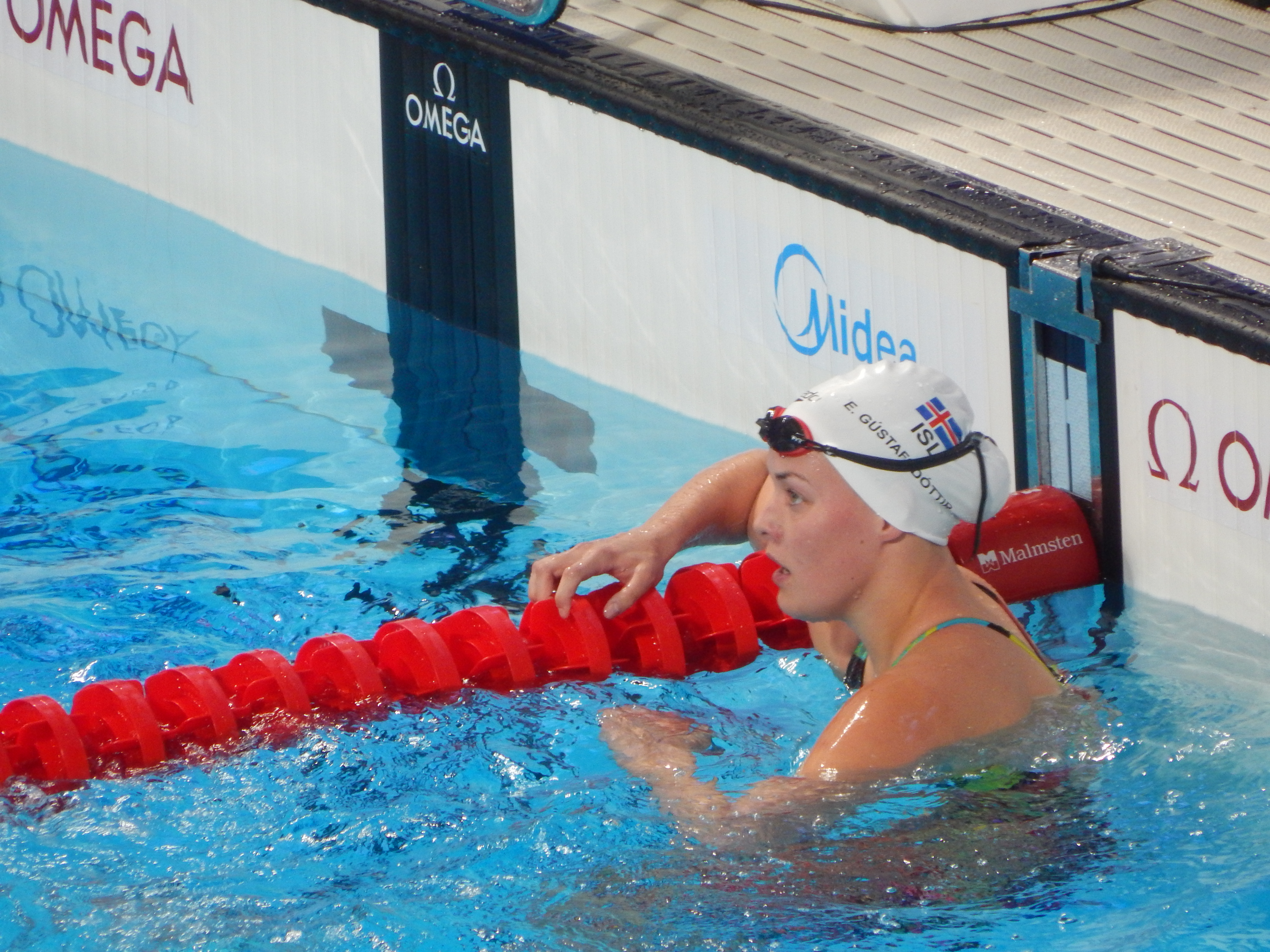 Eygló Ósk Gústafsdóttir finishes her 200m backstroke final in Kazan